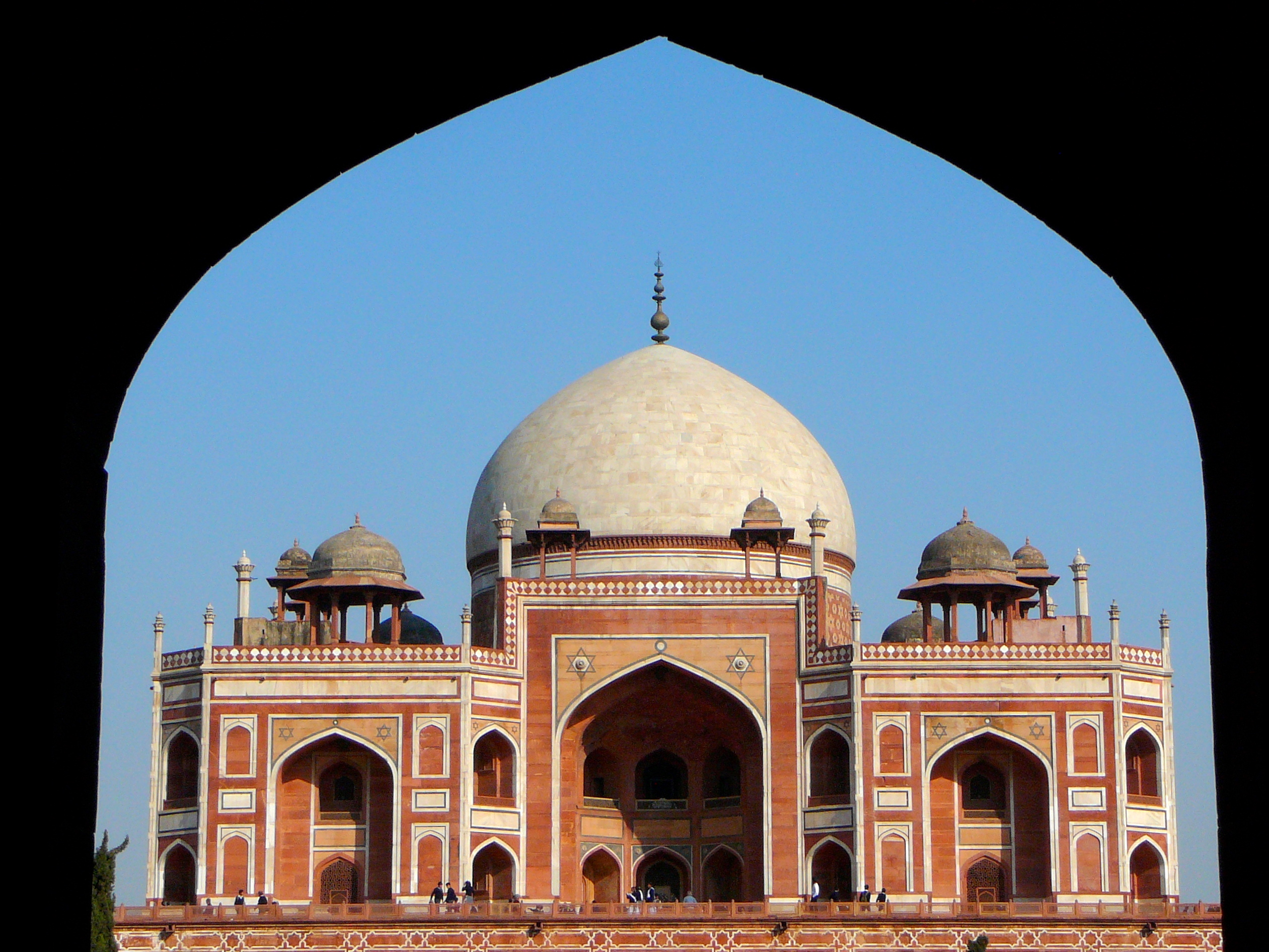 Humayun's Tomb, a UNESCO World Heritage Site, from the entrance, Delhi.